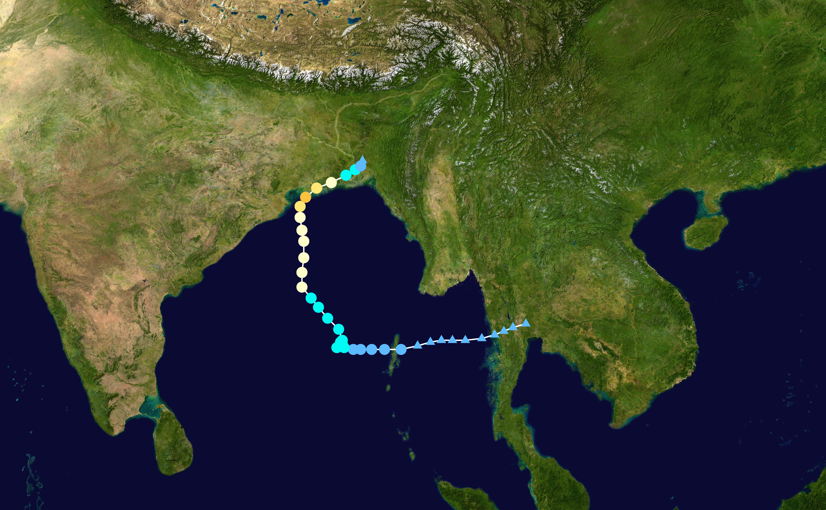 Track map of Very Severe Cyclonic Storm Bulbul of the 2019 North Indian Ocean cyclone season. The points show the location of the storm at 6-hour intervals. The colour represents the storm's maximum sustained wind speeds as classified in the Saffir–Simpson scale (see below), and the shape of the data points represent the nature of the storm, according to the legend below. Saffir–Simpson scale Tropical depression≤38 mph≤62 km/h Category 3111–129 mph178–208 km/h Tropical storm39–73 mph63–118 km/h Category 4130–156 mph209–251 km/h Category 174–95 mph119–153 km/h Category 5≥157 mph≥252 km/h Category 296–110 mph154–177 km/h Unknown Storm type Tropical cyclone Subtropical cyclone Extratropical cyclone / Remnant low / Tropical disturbance / Monsoon depression